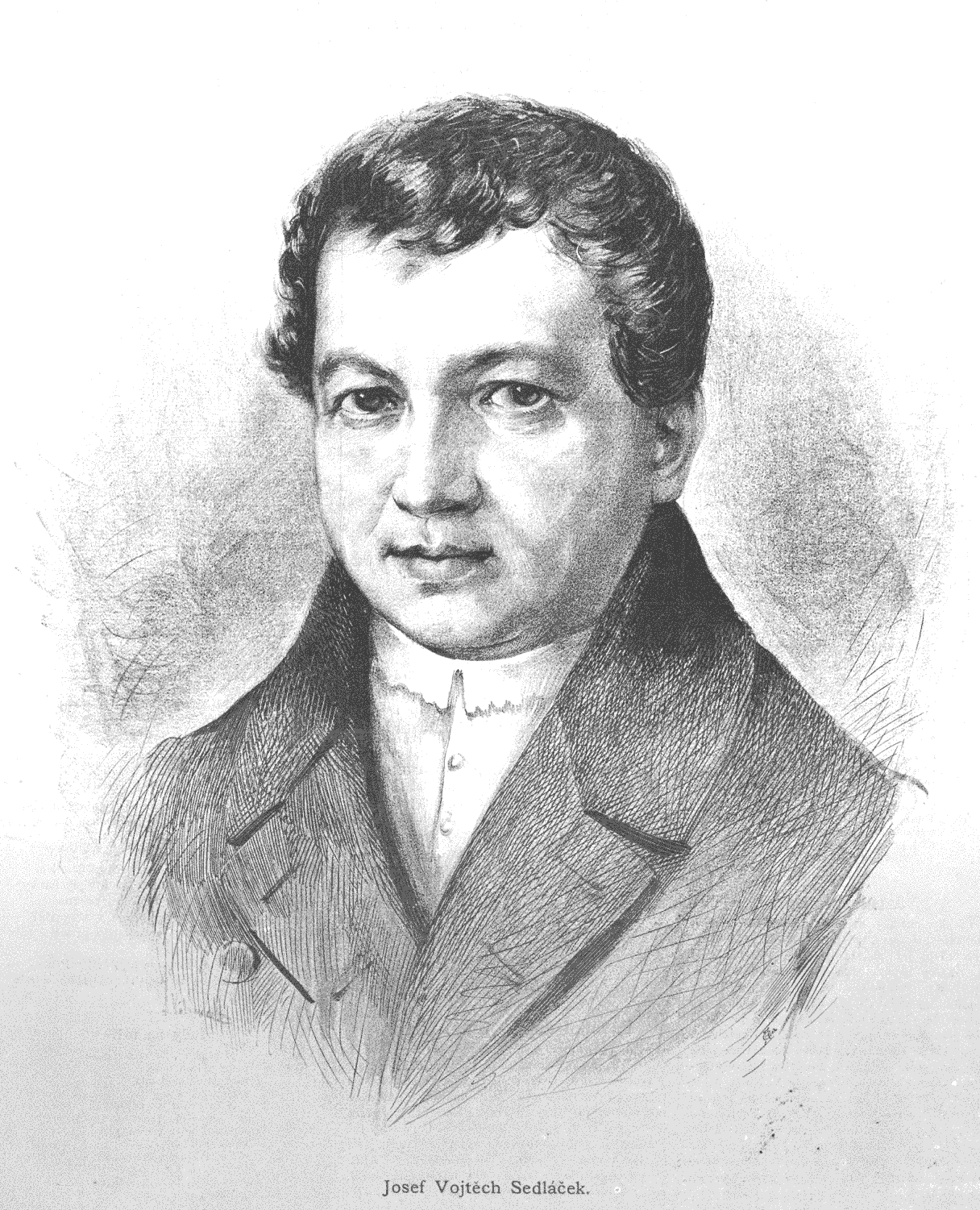 Portrait of Josef Vojtěch Sedláček (1785-1836), Czech priest, teacher and writer.